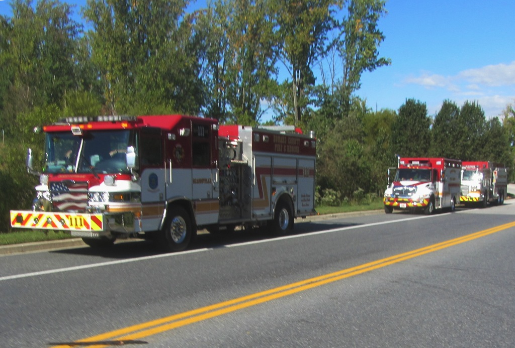 Howard County Fire and Rescue Scaggsville